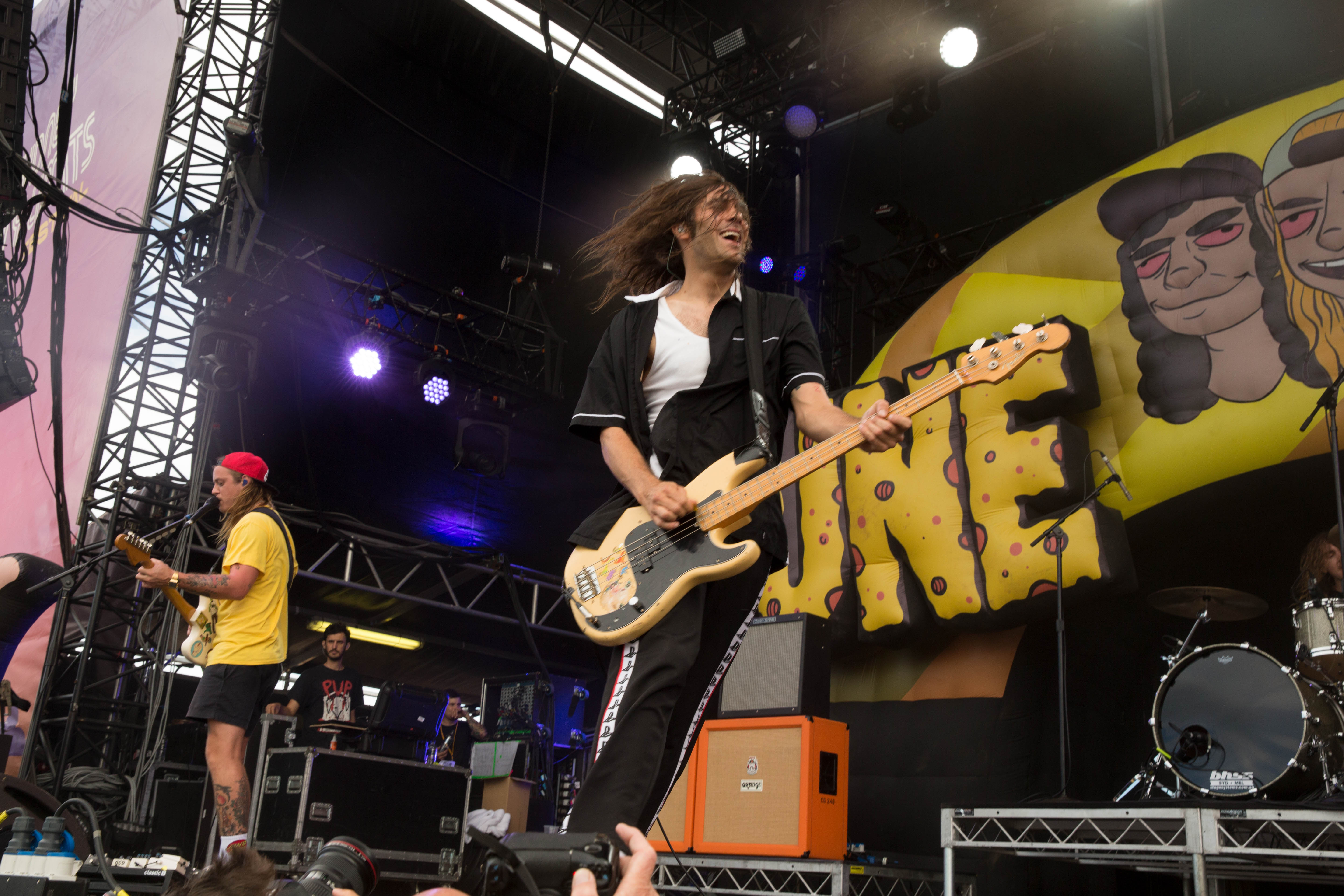 Dune Rats performing at Sydney City Limits 2018